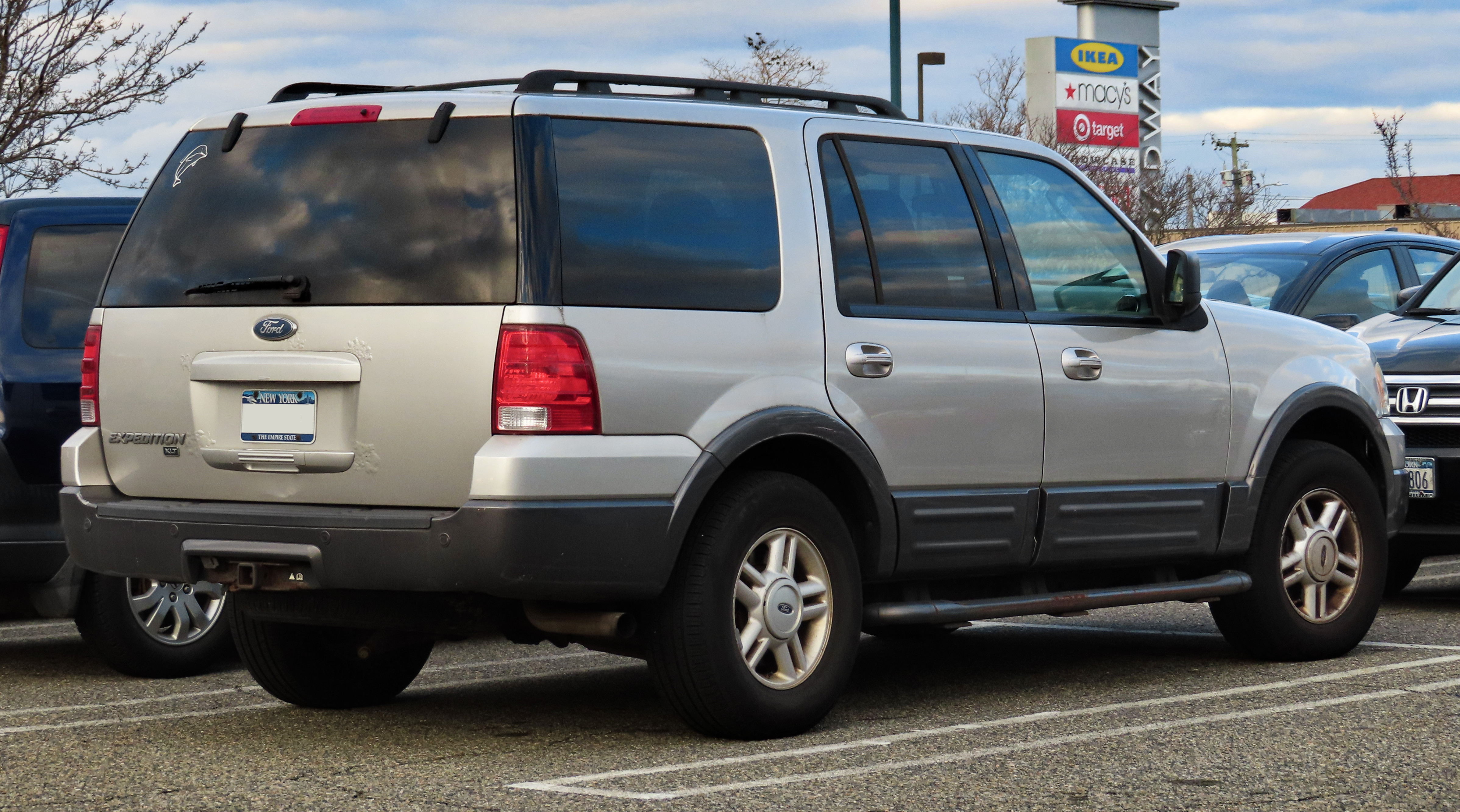 A 2005 Ford Expedition XLT photographed at Broadway Mall, in Hicksville, New York, USA